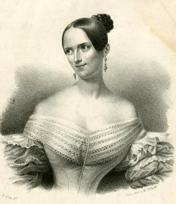 Engraved portrait of Sophie Löwe (1812–1866), artist unknown (circa 1840)